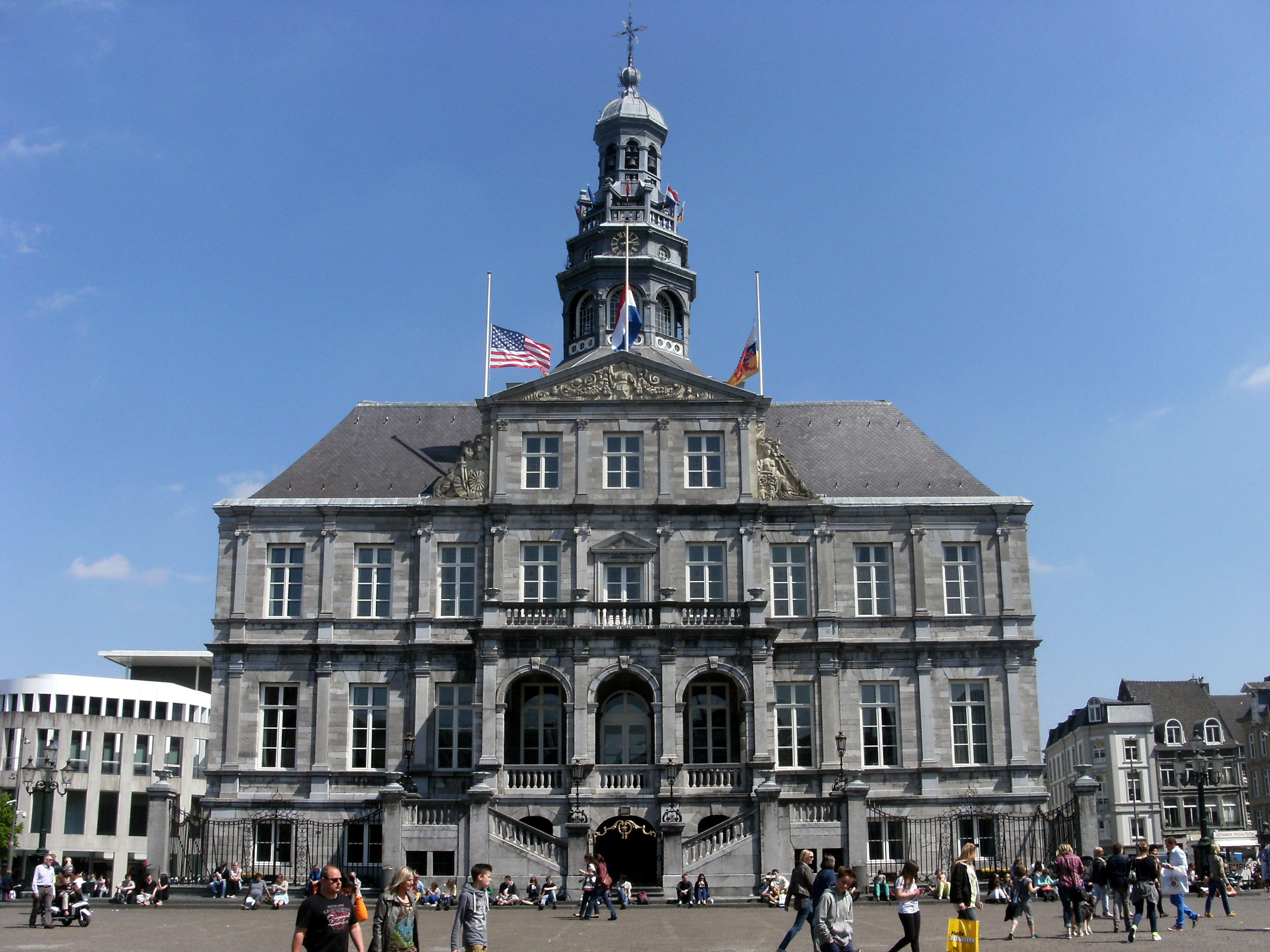 2013-05-04 in Maastricht; Stadhuis.